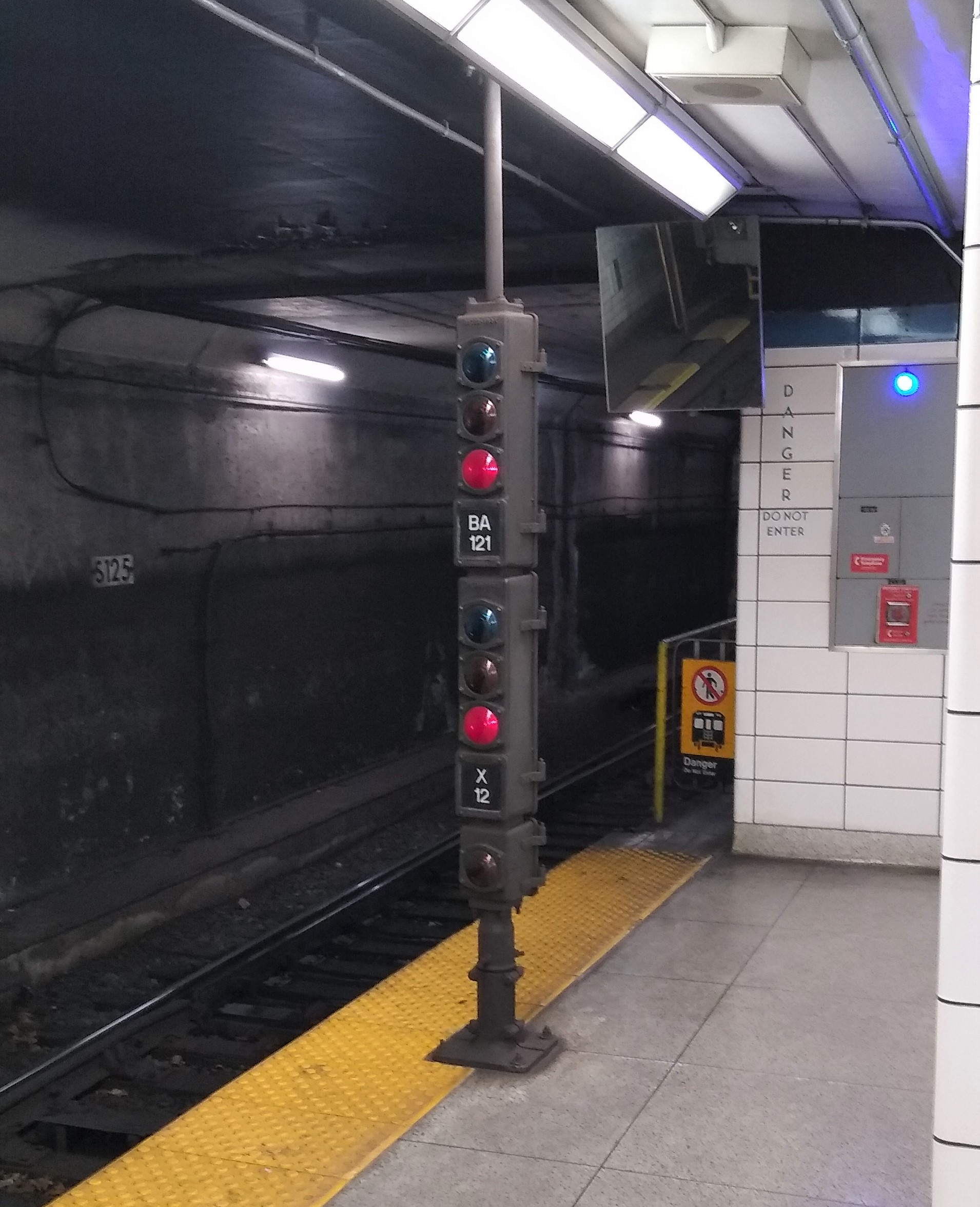 A subway traffic signal at Islington station in Toronto, Canada.